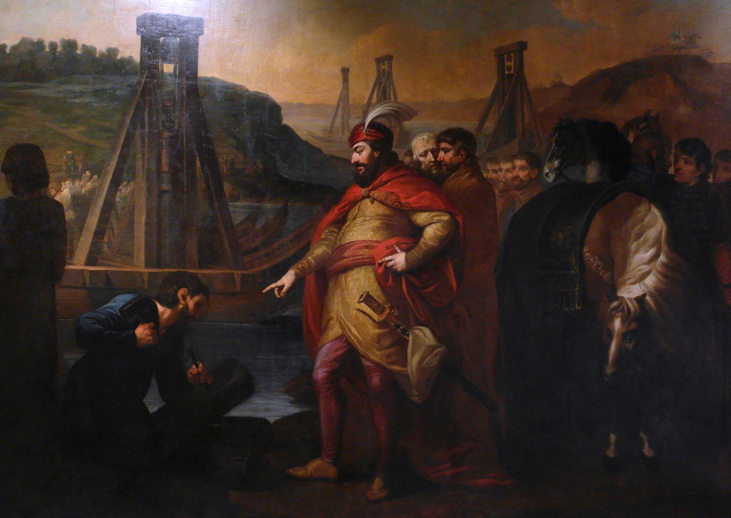 Bolesław I the Brave orders to hammer the border posts in Elbe and Soława by Józef Peszka ca. 1810